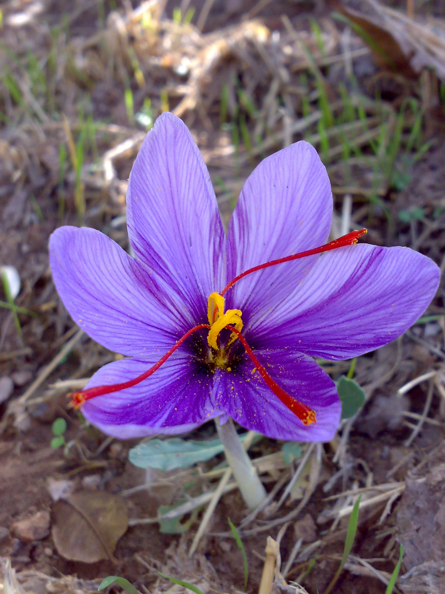 saffron in Savojbolagh County, tehran, iran. گیاه زعفران، روییده در شهرستان ساوجبلاغ